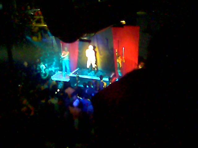 Chris Crocker performing with back-up dancers at gay disco Ice in Hamtramck, Michigan - 15 October 2007 Okay, so. I went to Detroit for 24 hours. And in that 24 hours I saw a lot. Many of the things that I saw, I had planned to see in advance, such as urban decay, the intractable cycle of poverty, and depressingly misguided attempts at urban renewal. OTHER things I saw were complete and utter surprises, such as a live personal appearance by internet insta-celebrity, weeping YouTube icon, Suicide Boy in extremis, and passionate Britney Spears advocate CHRIS CROCKER. Honestly, when you go to a tragic gay disco (at which I felt old old old, and hated the music) that is not even really in Detroit, but rather in Hmtrmck , he is perhaps the last thing you expect to see. Or maybe it was in fact inevitable? In either case, say what you will about him, I honestly believe that Chris Crocker an absolute, highly concentrated specimen of authentic twenty-first-century celebrtiy. No one has a greater right to be famous than he does. God have mercy on us all. PS, I have the worst camera phone in the world.